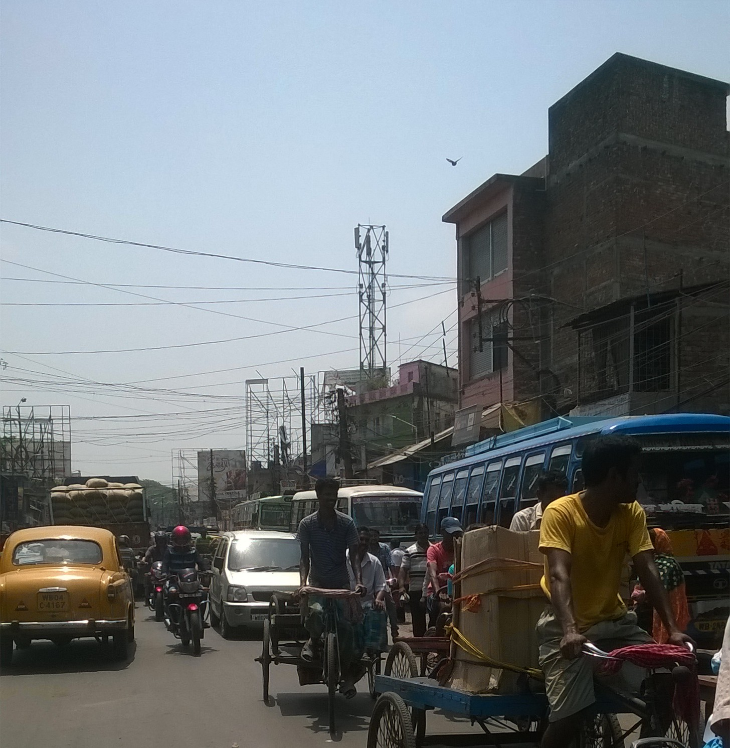 HABRA BAZAR